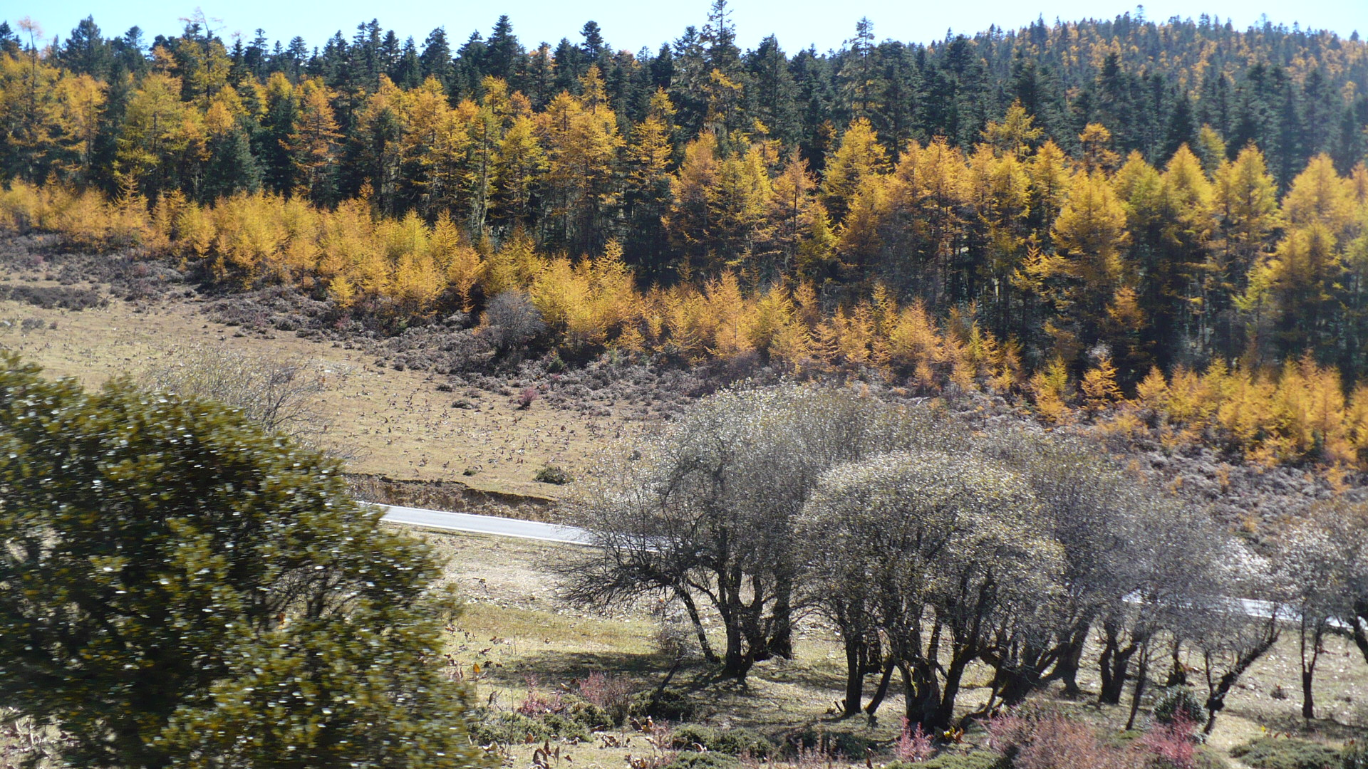 Potatso (Pudacuo) National Park, Diqing